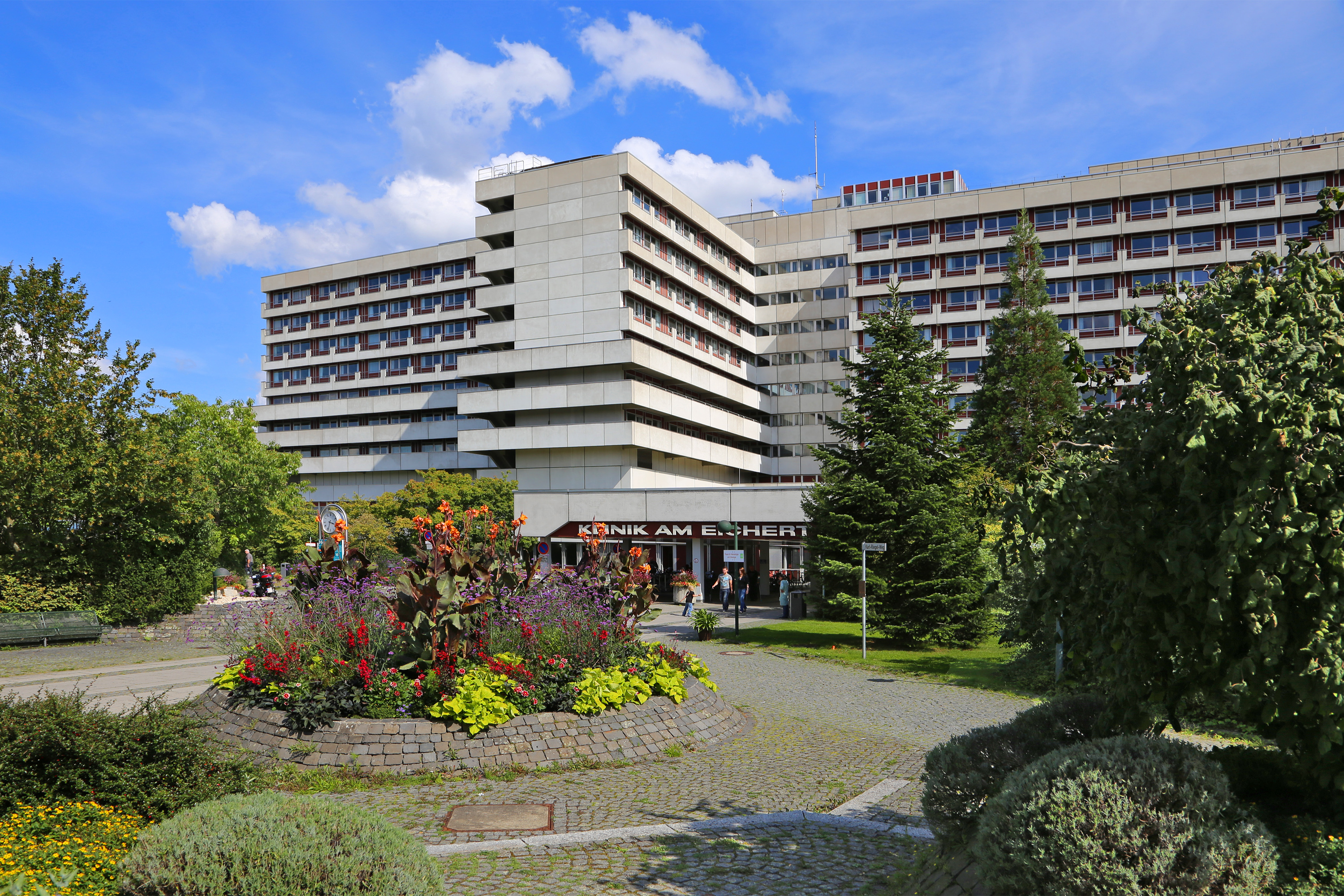 Klinik am Eichert, General Hospital and Academic Teaching Hospital of the University of Ulm. Carrier: County Göppingen.